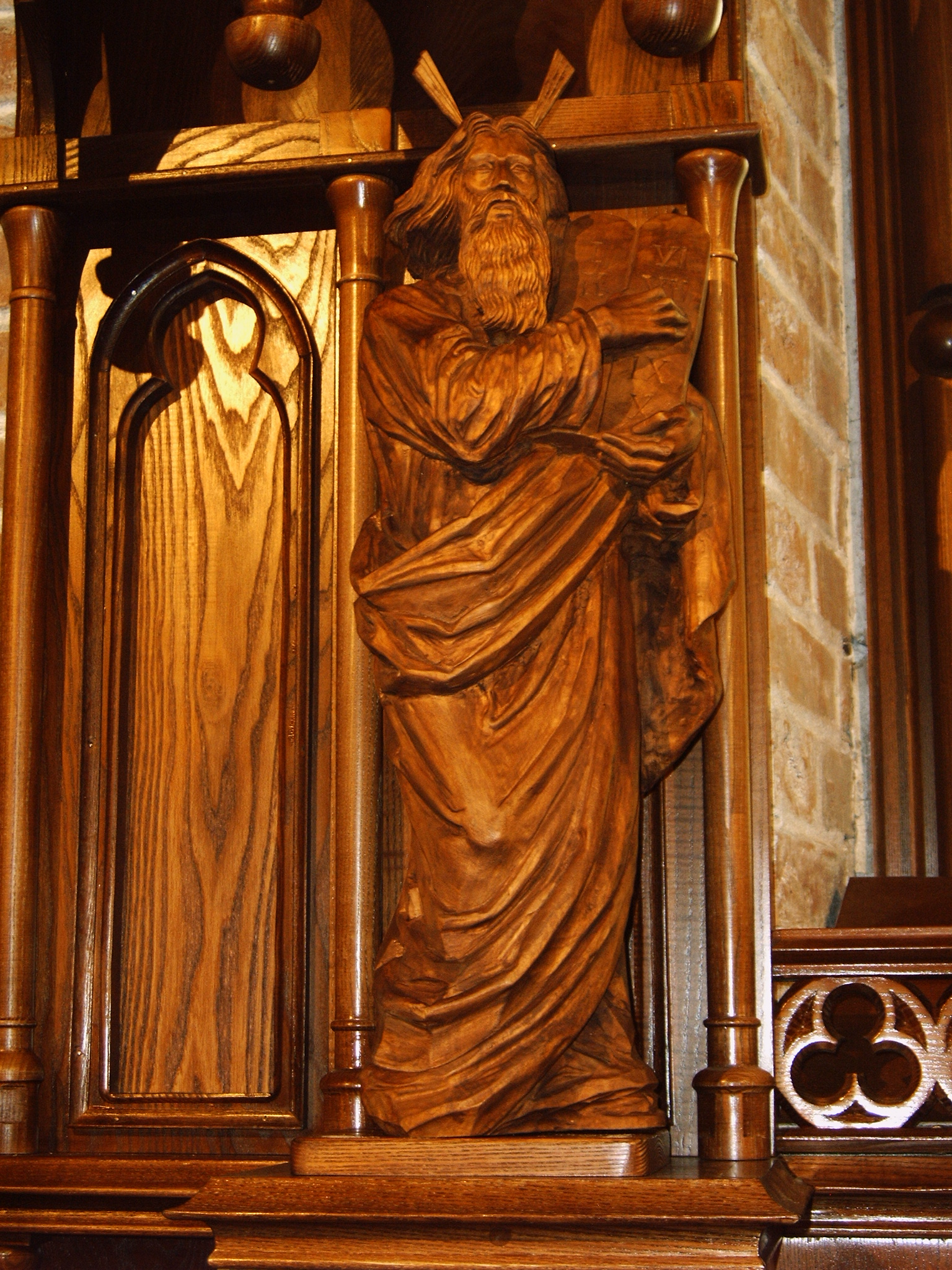 Poland, Mielno, church, Sculpture of Moses